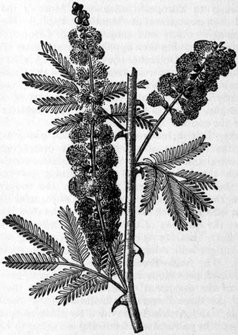 Acacia Senegal, flowering branch